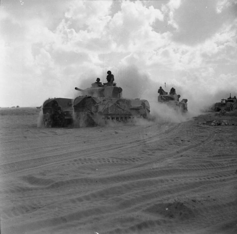 Campaign in North Africa 1940 1943 Churchill Mk III tanks of 'King Force' moving forward towards the battle area during the Second Battle of El Alamein, 5 November 1942.